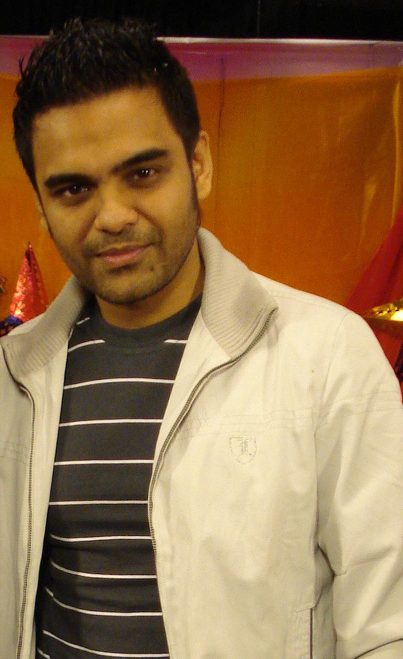 Habib Wahid. By: Luvlee_Nikita